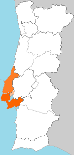 Region of Estremadura - Metro Lisbon in darker colour, Vila Franca de Xira (in Metro Lisbon though not in Estremadura) in lighter colour.